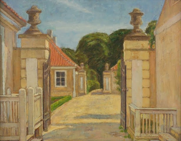 Painting for the gatehouse at Frydenlund North of Copenhagen, Denmark